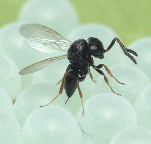 An adult samurai wasp (Trissolcus japonicus) lays eggs in a mass of brown marmorated stink bug eggs. Photo by Chris Hedstrom, Oregon Department of Agriculture.